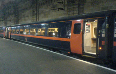 A British Rail Mark 4 railway coach in the colours of Great North Eastern Railway (GNER), photographed at Glasgow Central by Wikipedia member RapidAssistant on the 2nd December 2006.